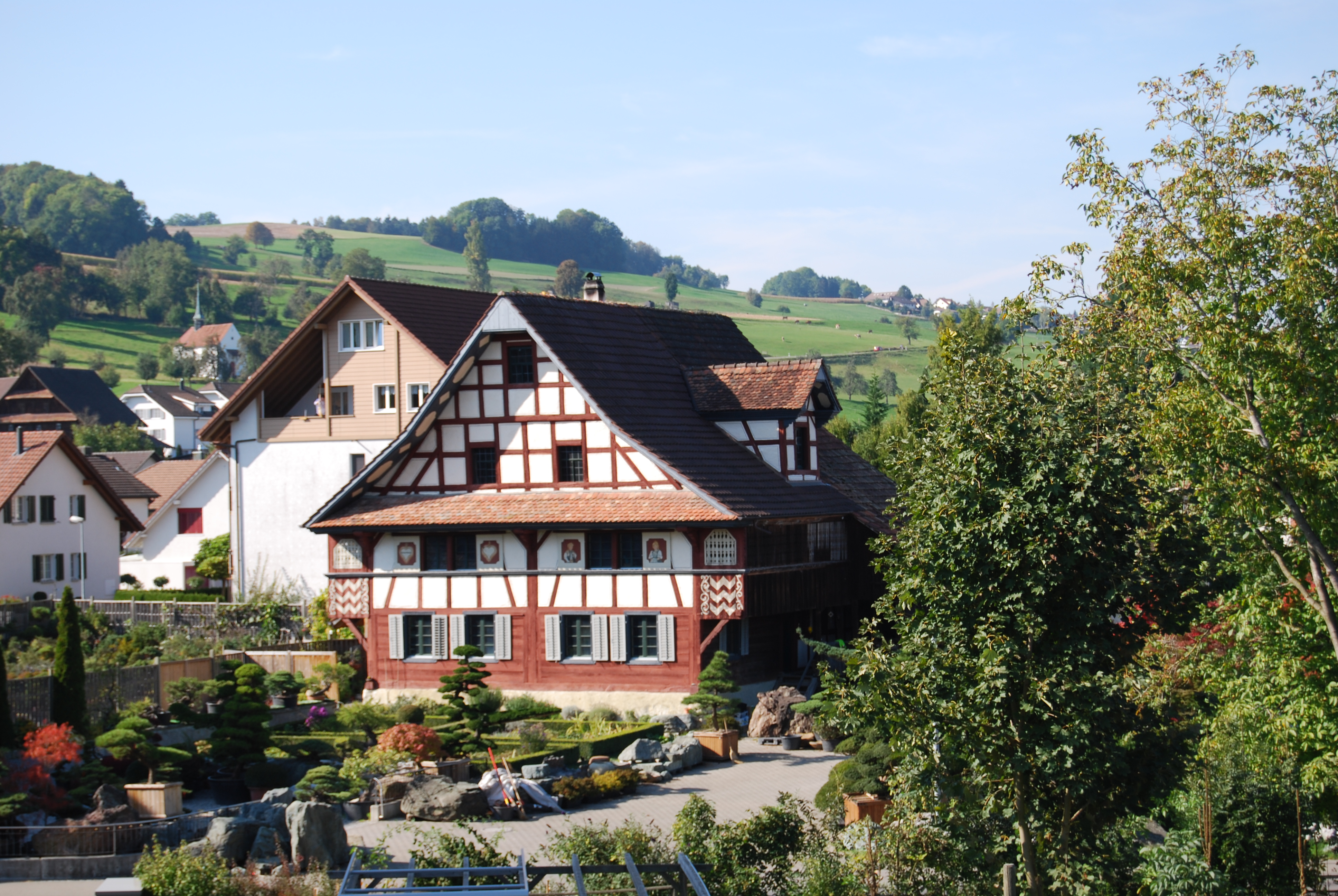 Boswil, canton of Aargau, SwitzerlandEsperanto: Boswil, Kantono Argovio, Svislando